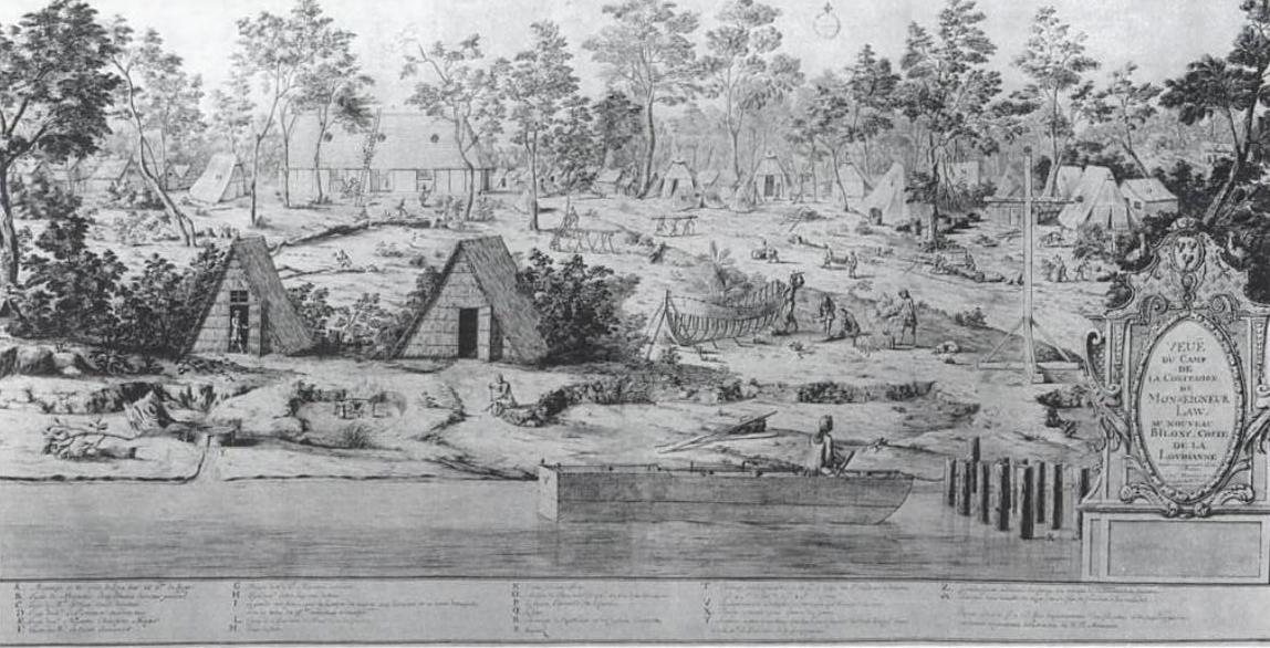 Image of John Law Camp. The image is only being used in the article about the deceased person (John Law Camp ) for informational and educational purposes. Source: Africans in Colonial Louisiana By Gwendolyn Midlo Hall, American Council of Learned Societies. See also : [1]